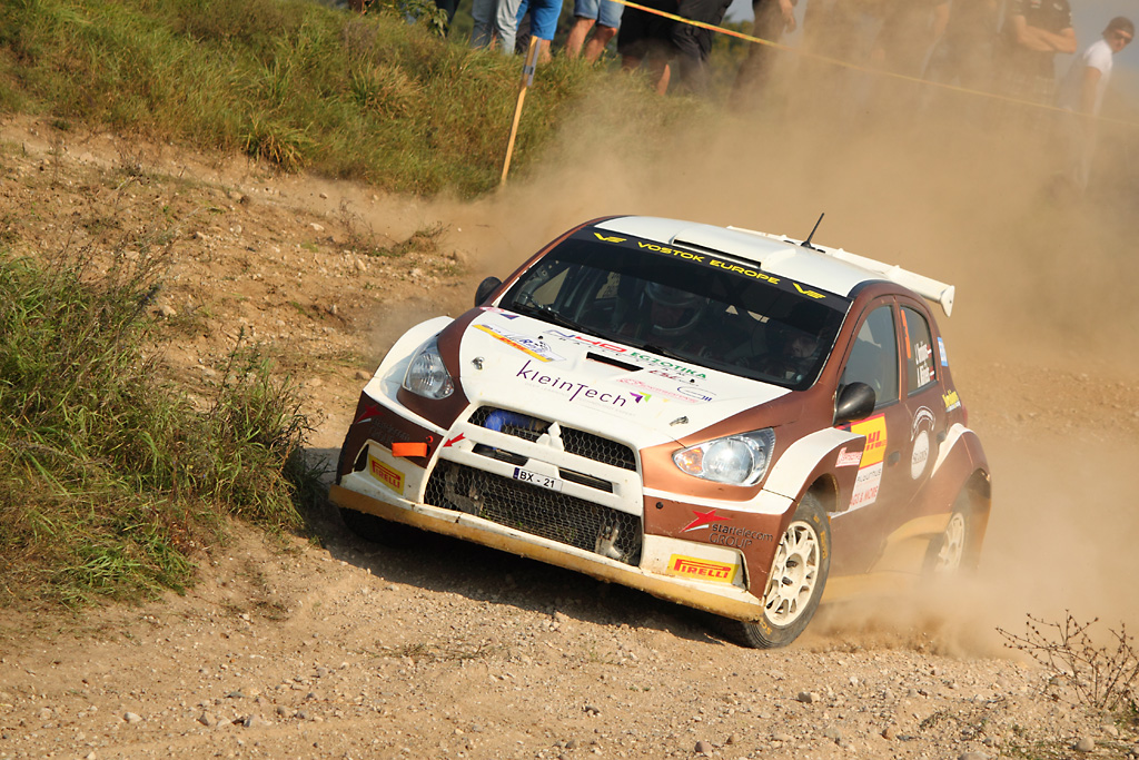 Rally driver Jānis Vorobjovs, Mitsubishi Mirage